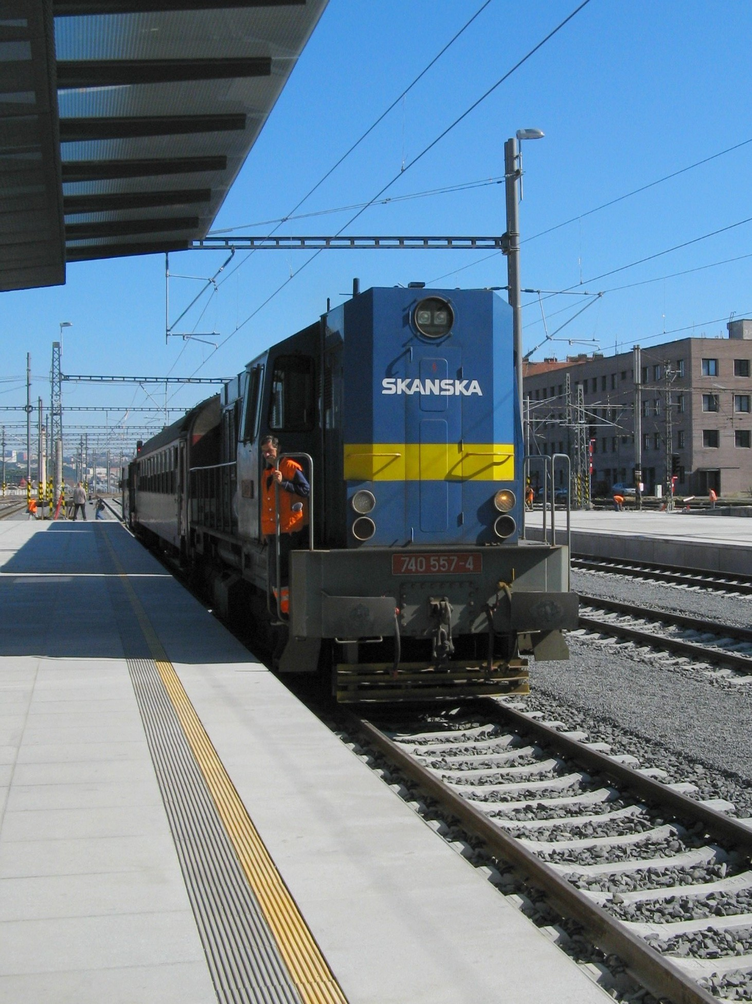 ČD 740.557-4 at Praha hlavní nádraží station